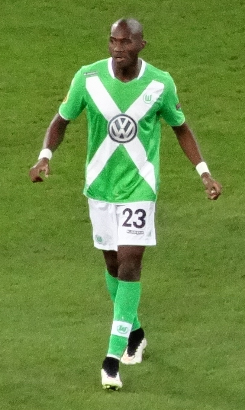 Josuha Guilavogui (Wolfsburg)